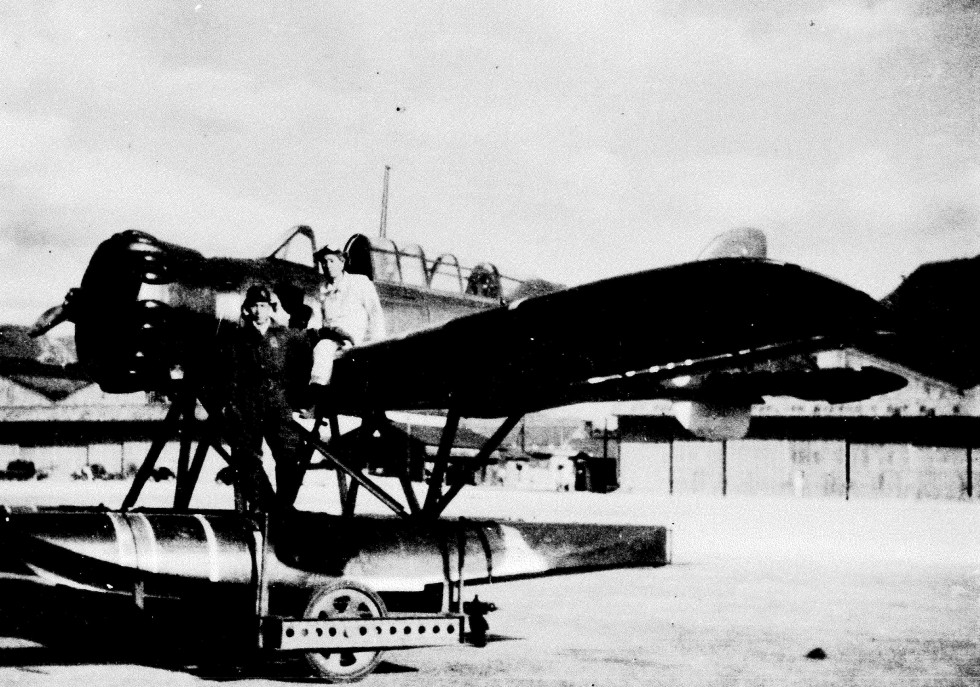 Nobuo Fujita and his plane, Yokosuka "Glen". This pre-1945 image is believed to be copyright-free, as it is a Japanese photograph older than 50 years. If copyright exists in this image, use here is asserted to be fair use.